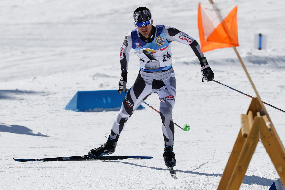 БЕЛОМАЖЕВ Станимир (Болгария). Лыжное ориентирование, спринт, мужчины. III Зимние Всемирные военные игры. Лыжно-биатлонный комплекс «Лаура», Сочи, Россия. 26 февраля 2017. Фото Andrey Golovanov/CISM2017BELOMAZHEV Stanimir (Bulgaria). Ski Orienteering, Sprint, Men .3rd CISM World Winter Games. Laura Cross-Country Ski&Biathlon Centre, Sochi, Russian Federation. February 26, 2017. Photo by Andrey Golovanov/CISM2017